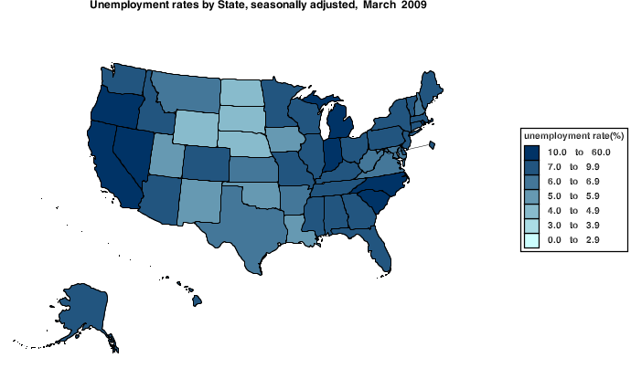 Map of unemployment levels in the USA by state, produced by the Bureau of Labor Statistics Website.